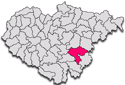 Map Salaj County Romania